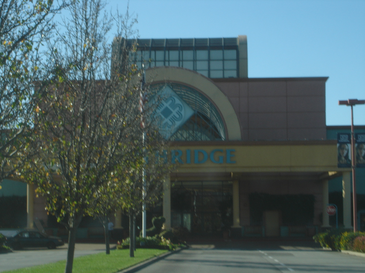 I shot the picture myself